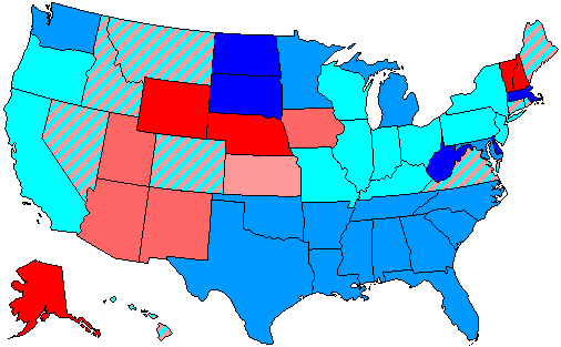 Summary of party control of U.S. house seats in the 100th United States Congress following election. Stripes indicate a tie between two or more parties. Legend: 80.1-100% Democratic seat majority 60.1-80% Democratic seat majority 60% or less Democratic seat plurality 60% or less Republican seat plurality 60.1-80% Republican seat majority 80.1-100% Republican seat majority